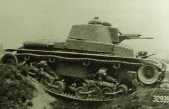 Czechoslovak tank LT-35